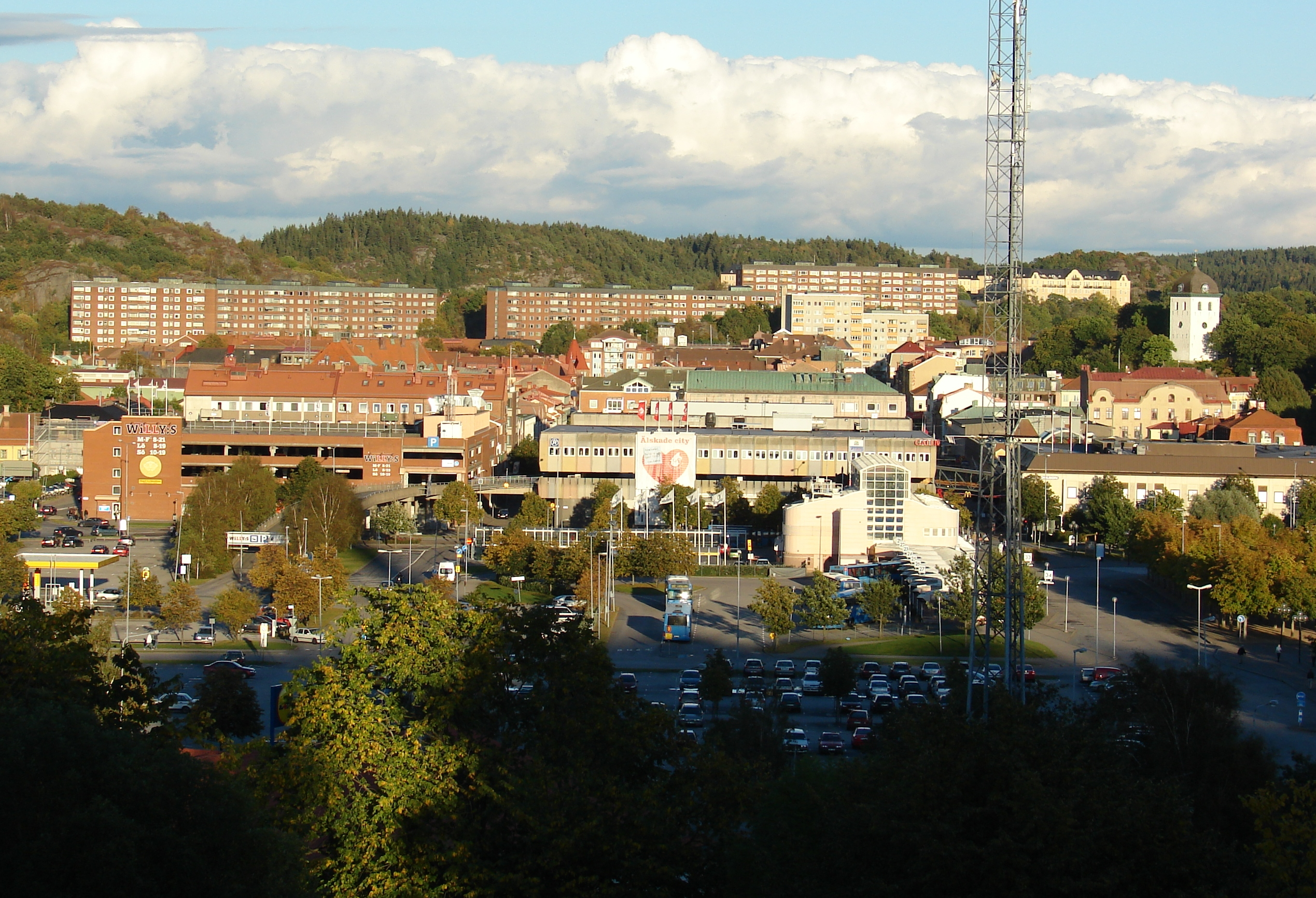 The centre of Uddevalla (in Sweden), picture taken from Skansberget